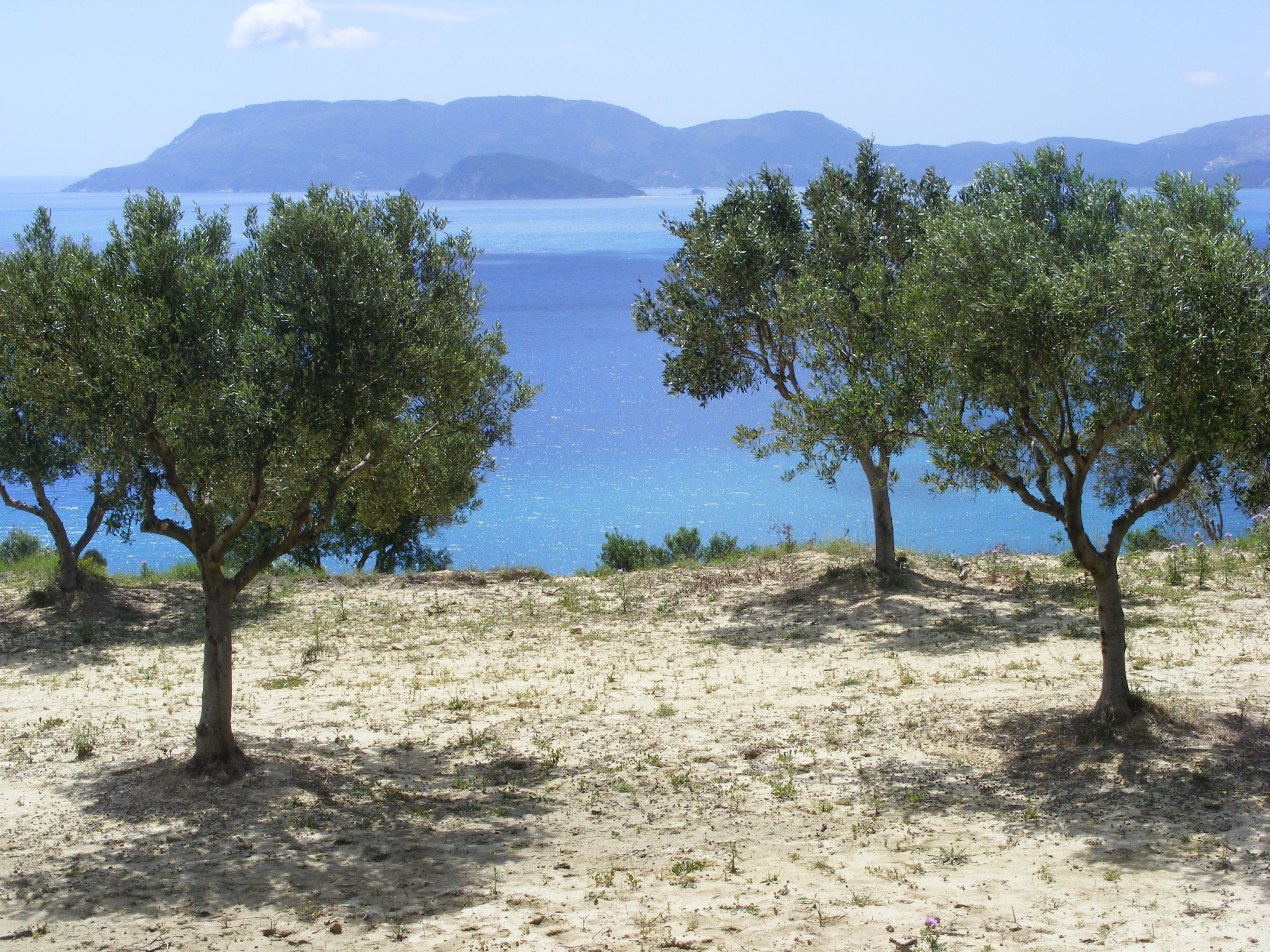 Zakynthos May 2009 on the way to Dafni beach 4